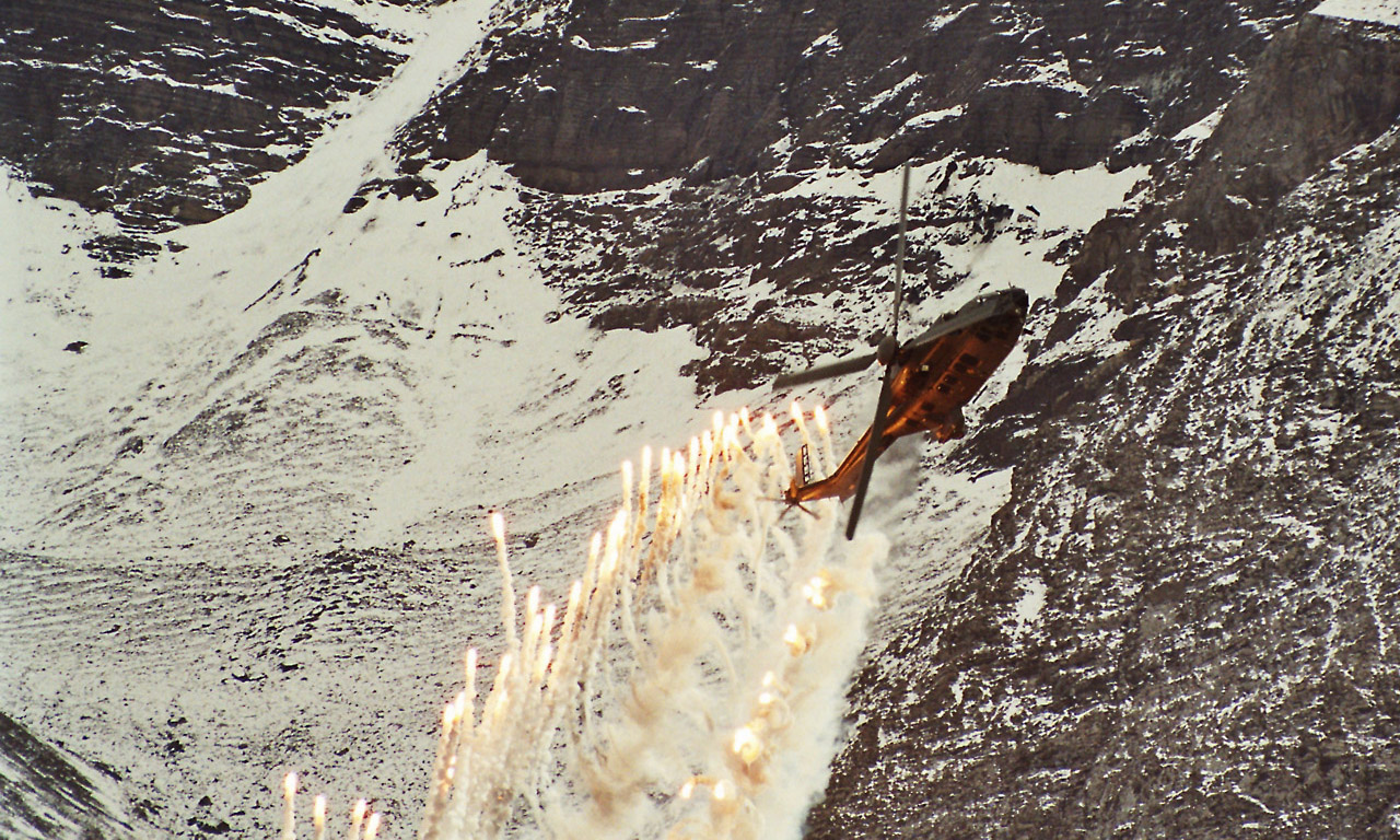 Cougar Helicopter firing all decoy flaresAxalp Shooting Demo 2006, Axalp-Ebenfluh Bombing and Gunnery Range, Switzerland